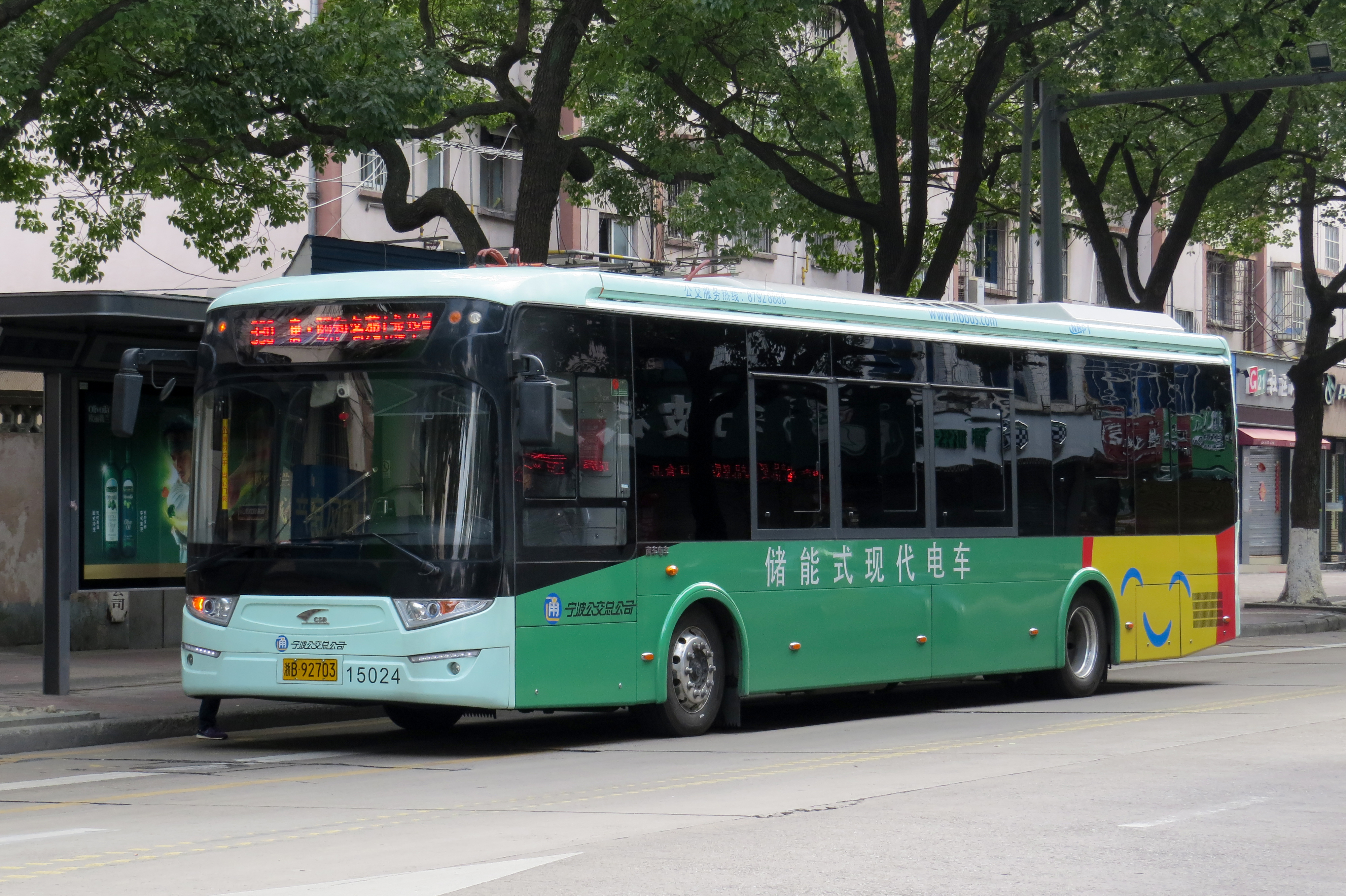 It has a pantograph-like utensil.